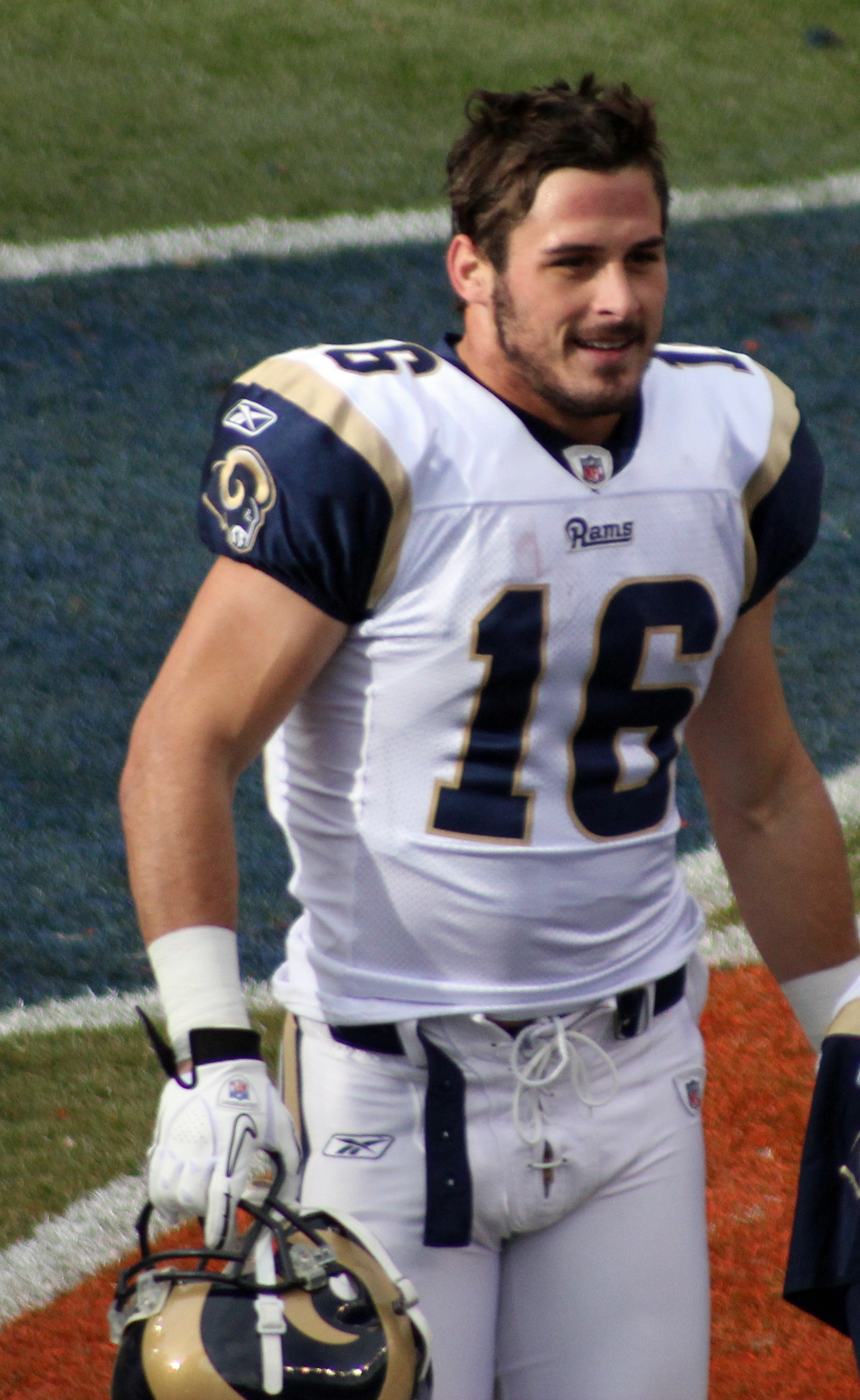 Danny Amendola, a player on the Saint Louis Rams American football team.